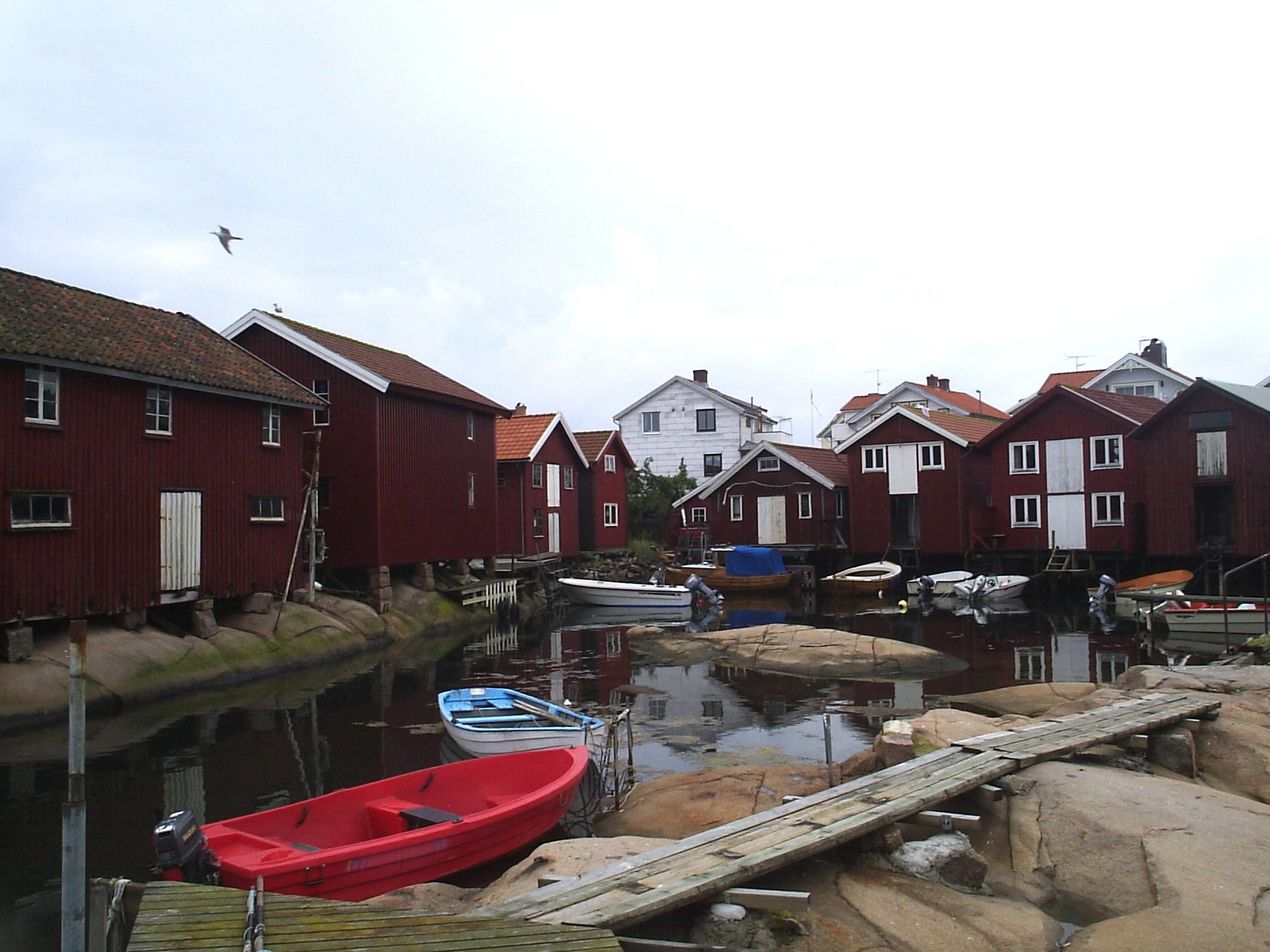 Photo by Harri Blomberg.